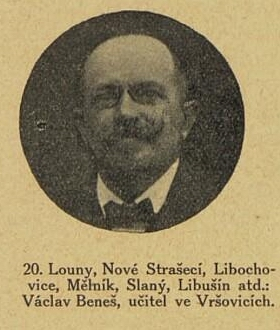 Václav Beneš (1865-1919), Czech teacher and polititian